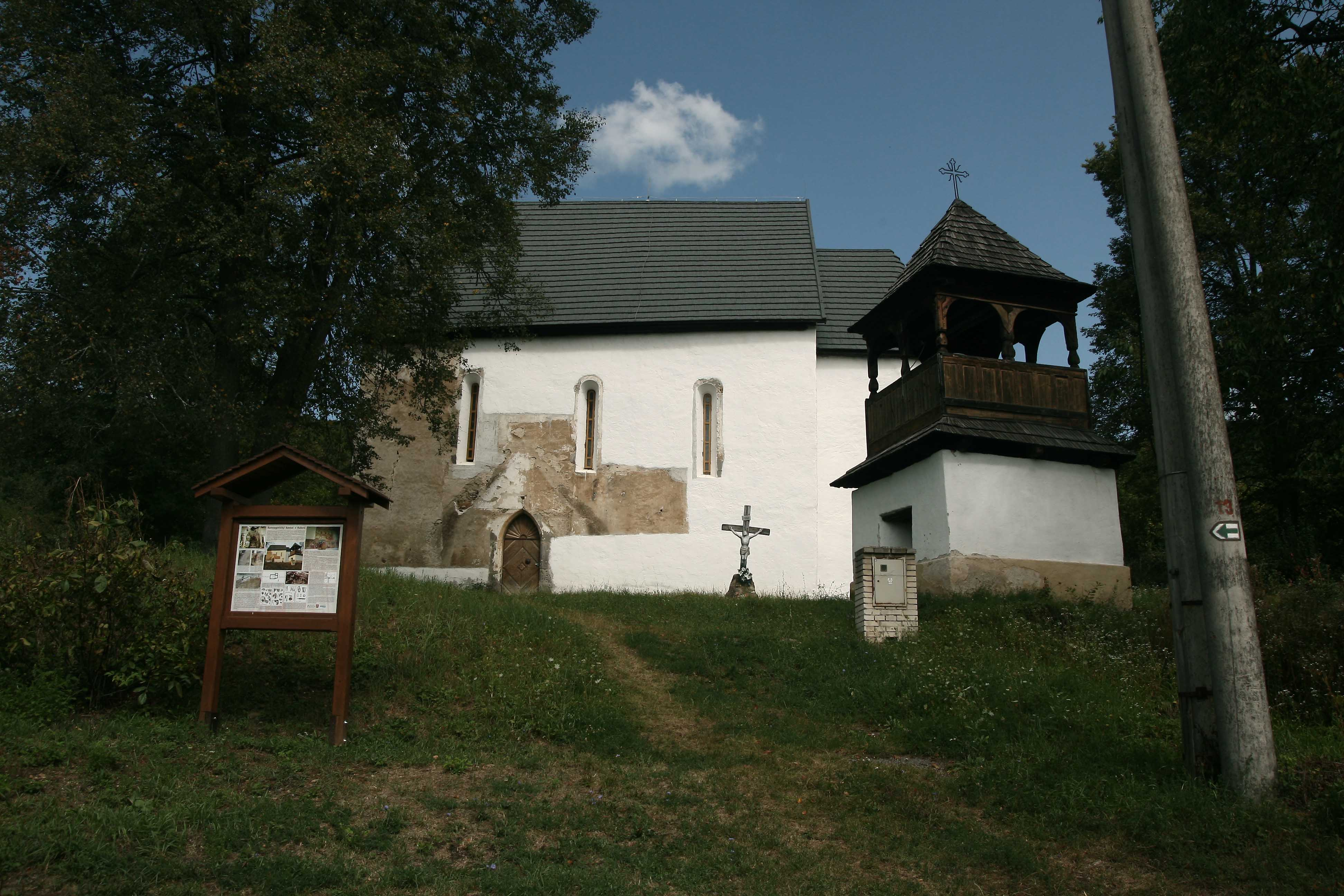 Romanesque Holy Trinity Church in Rákoš, Slovakia.